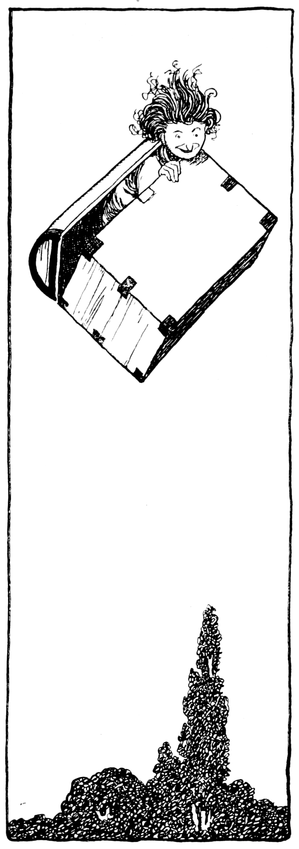 Black and white illustration in Hans Andersen's fairy tales (1913) London: Constable.